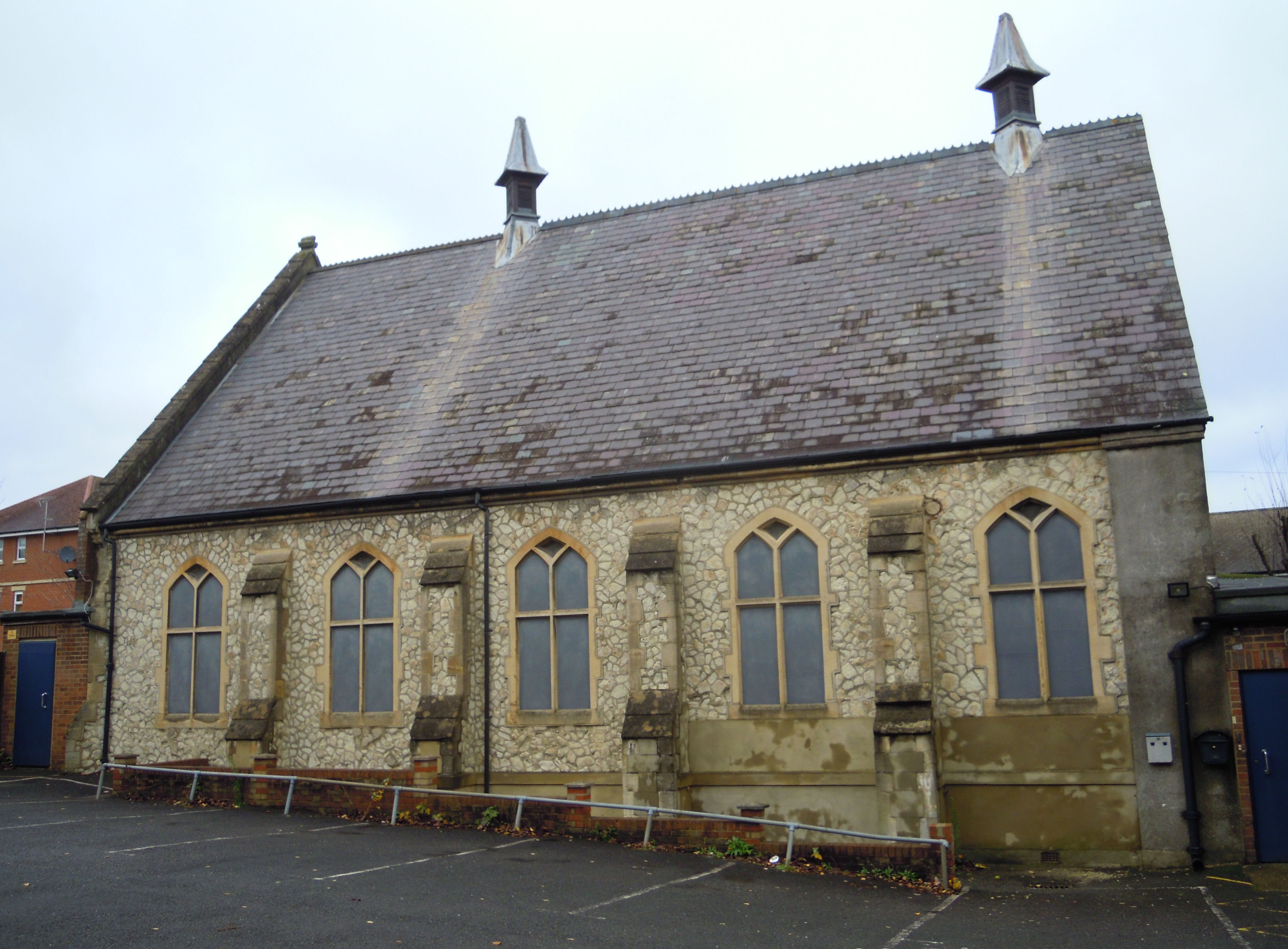 Aldershot Masonic Centre, previously the Meeting Hall of Mrs Daniell's Soldiers' Home and Institute